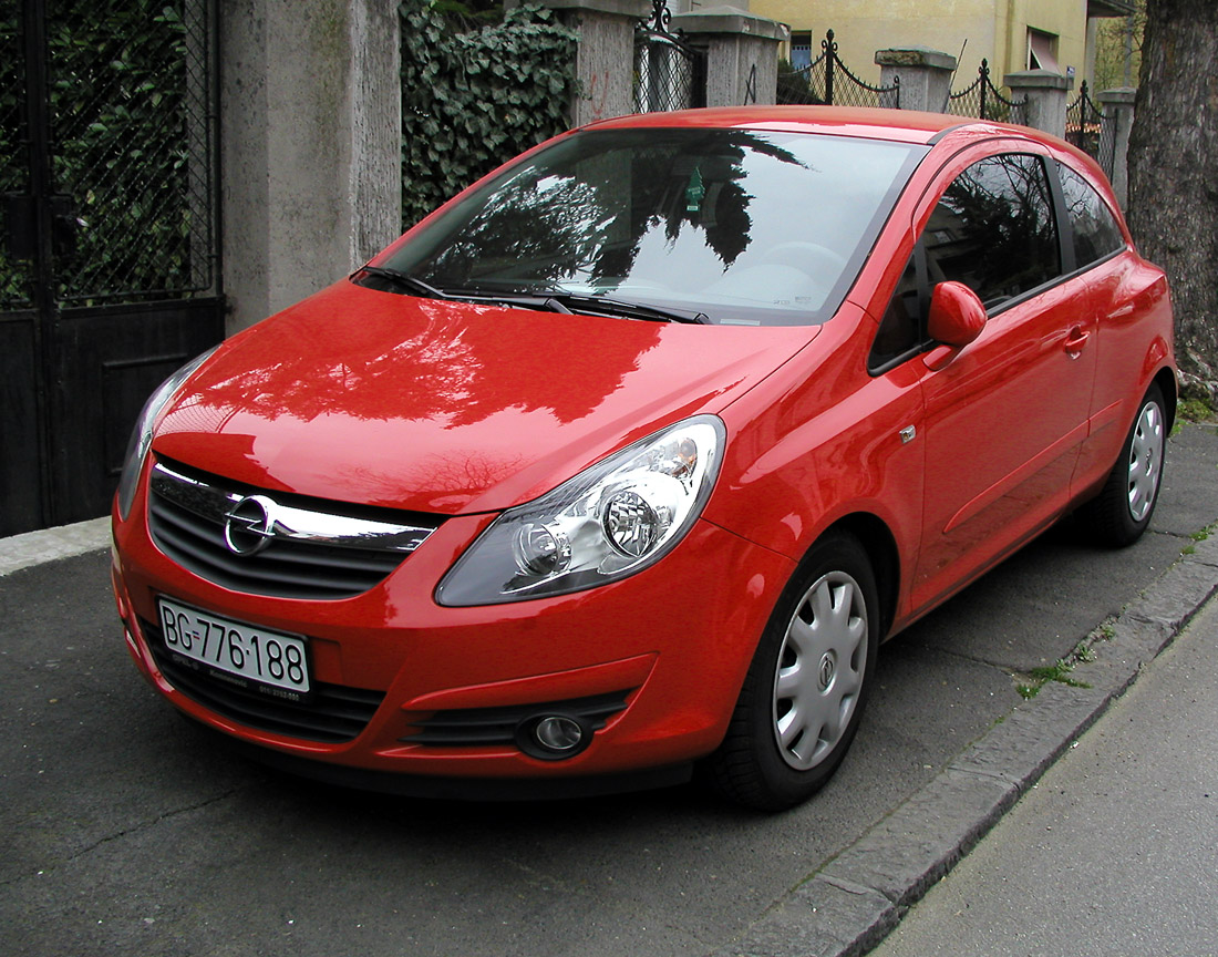 2007 Opel Corsa D hatchback.